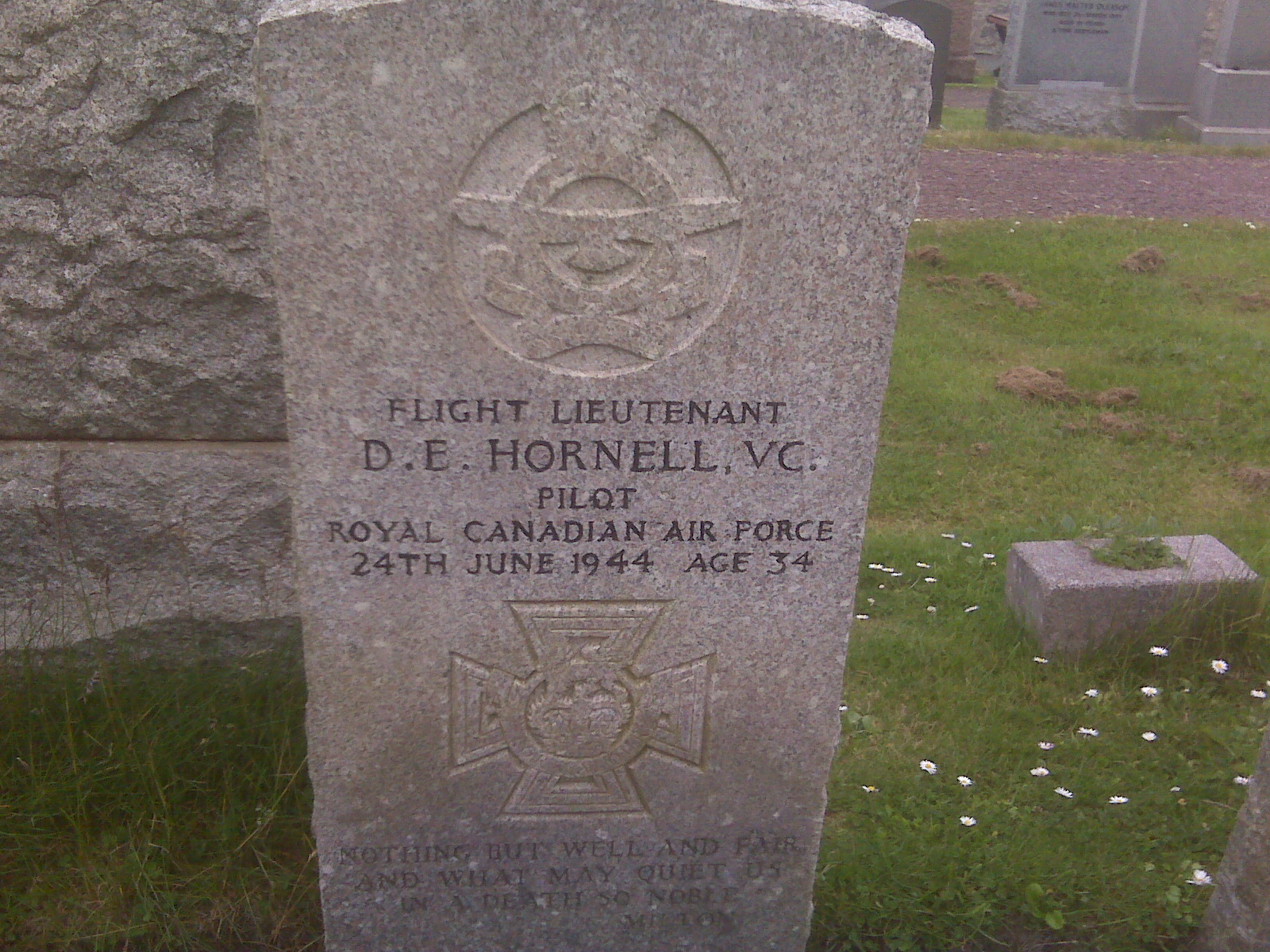 David Ernest Hornell's gravestone in Lerwick Cemetery, Shetland Isles, Scotland, UK